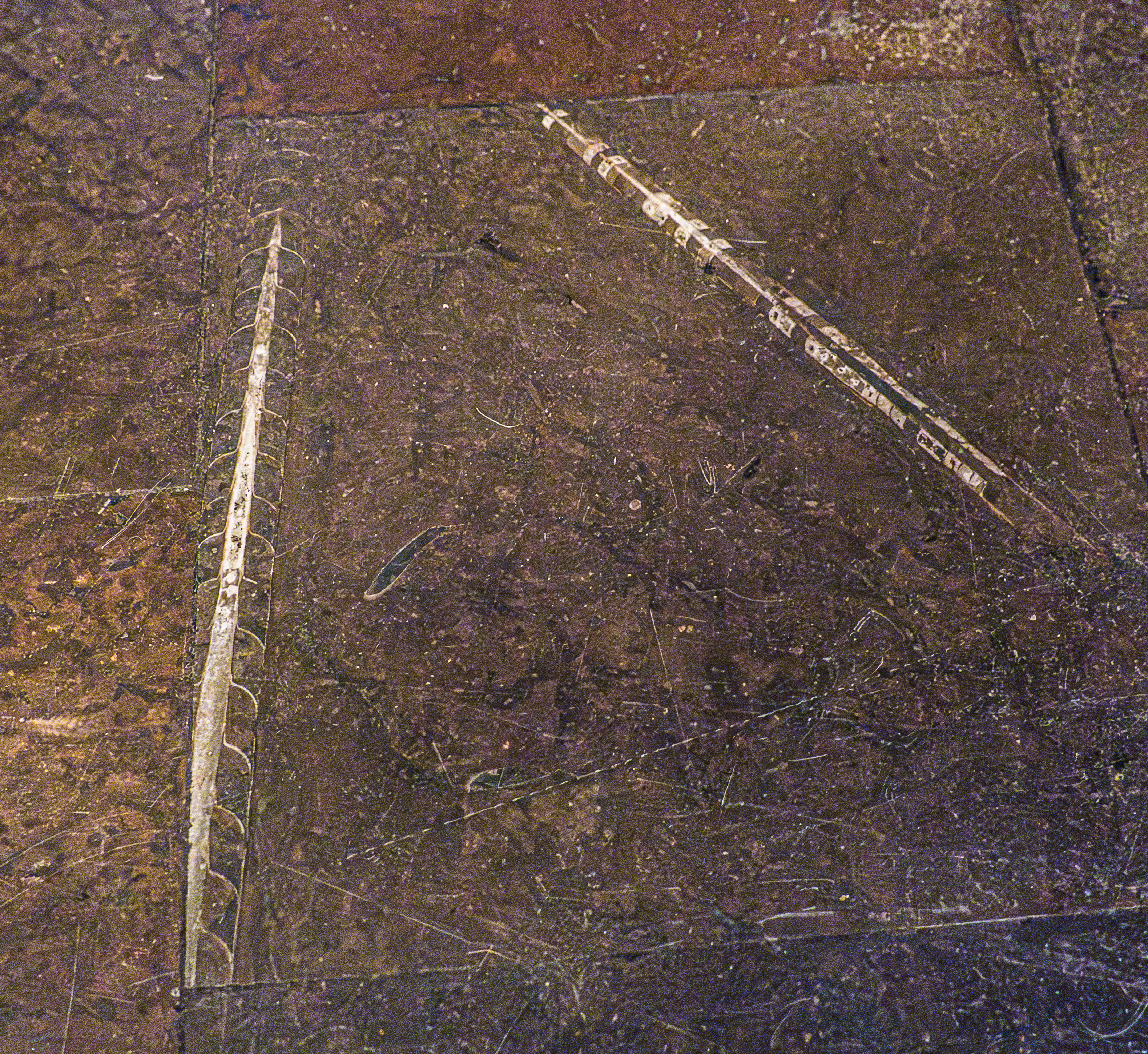 Orthoceras fossils in the limestone staircase in the Grillska house in the Old Town of Stockholm.